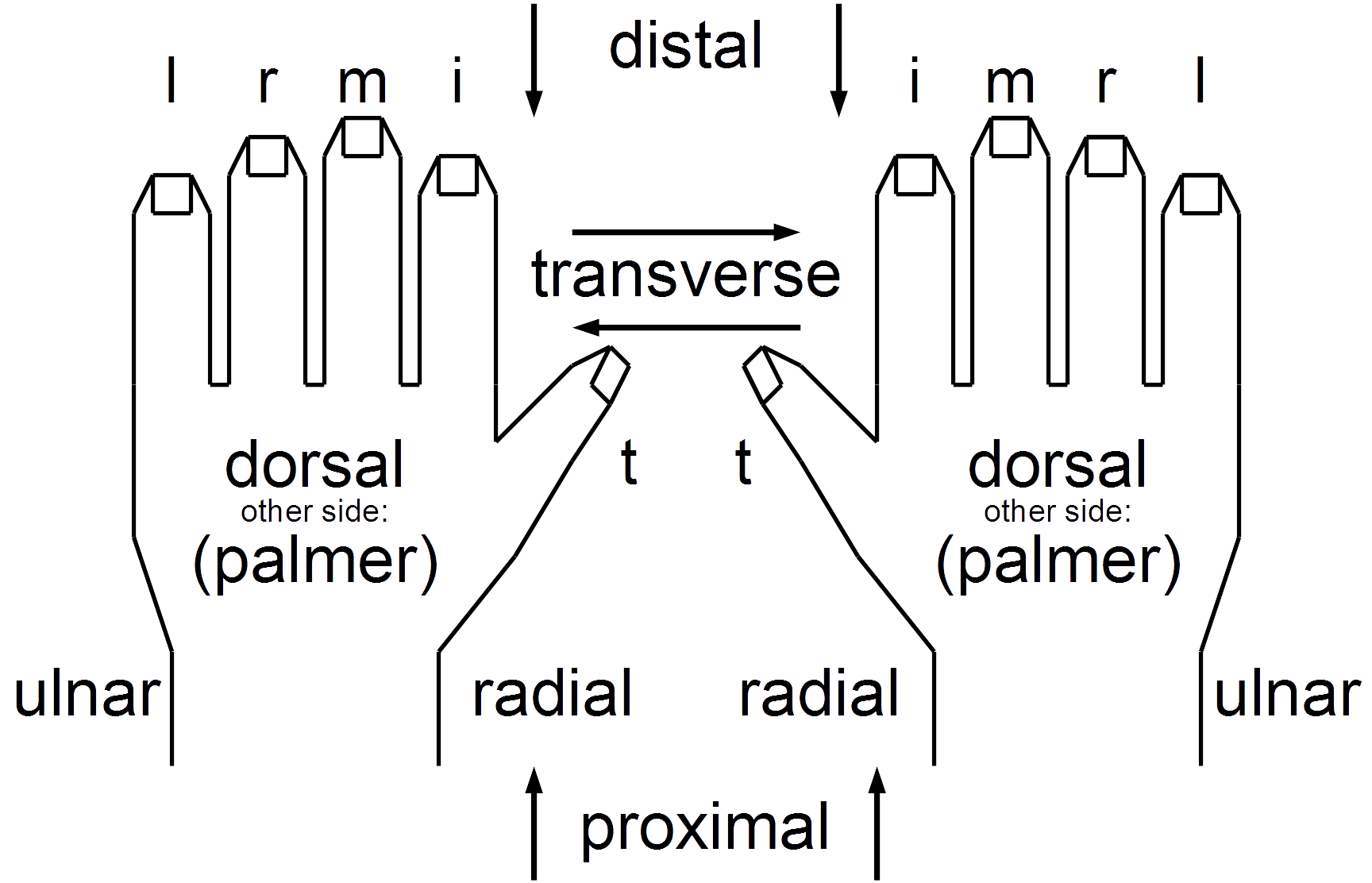 Anatomical string figure locations, both hand. Labels indicate string or loop location near/far, below/above, between, palm/back of hand. Transverse: between hands/fingers Distally: from above/fingertip side Proximally: from below/base side Ulnar: pinkie side/outside Radial: thumb side/inside Dorsal: back of hand Palmer: front of hand/palm side